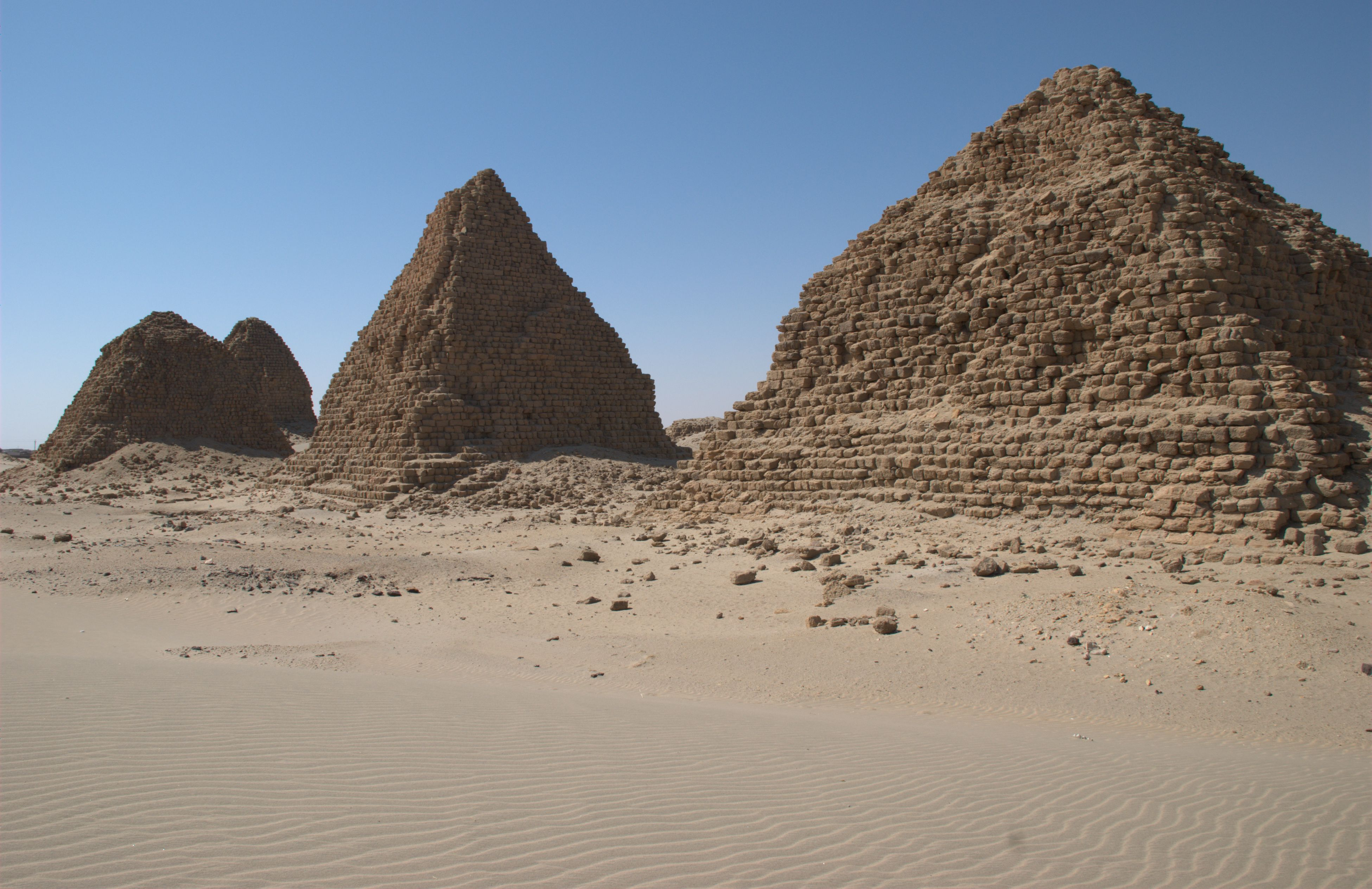 Nuri pyramids from northeast. Near Jebel Barkal, Sudan